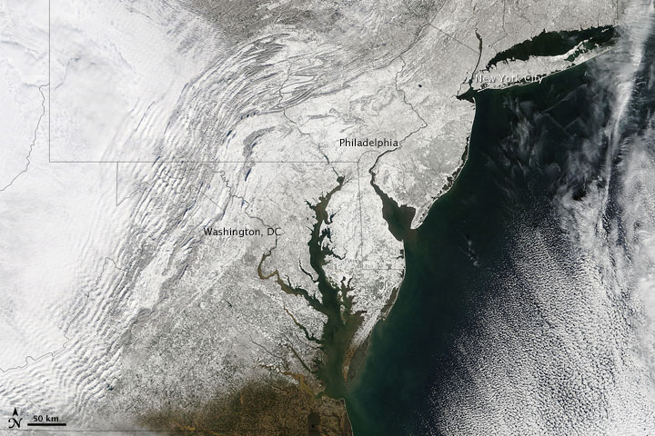 The second blizzard in less than a week pounded the U.S. East Coast on February 9–10, 2010. Federal government offices in Washington, DC, remained closed for four consecutive days as locals skied past the city’s monuments. New York City public schools closed for the third snow day in six years. Crews worked furiously to restore power to thousands of homes and businesses in New Jersey. Some 200 vehicles sat abandoned on I-78 in eastern Pennsylvania as snow fell at a rate of roughly 2 inches (5 centimeters) per hour. The Moderate Resolution Imaging Spectroradiometer (MODIS) on NASA’s Terra satellite captured this true-color image on February 11, 2010. Compared to the previous storm, this snowstorm affected areas farther north, particularly in New York. Snow cover thins in southeastern Virginia, but snow cover appears unbroken to the north.